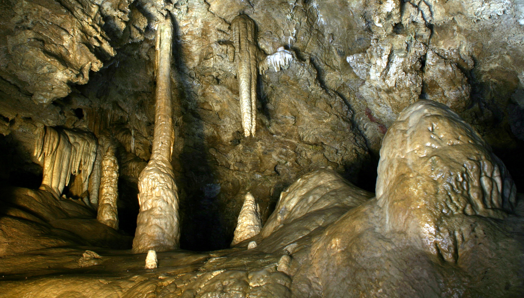 Millers Chapel in Oregon Caves National Monument